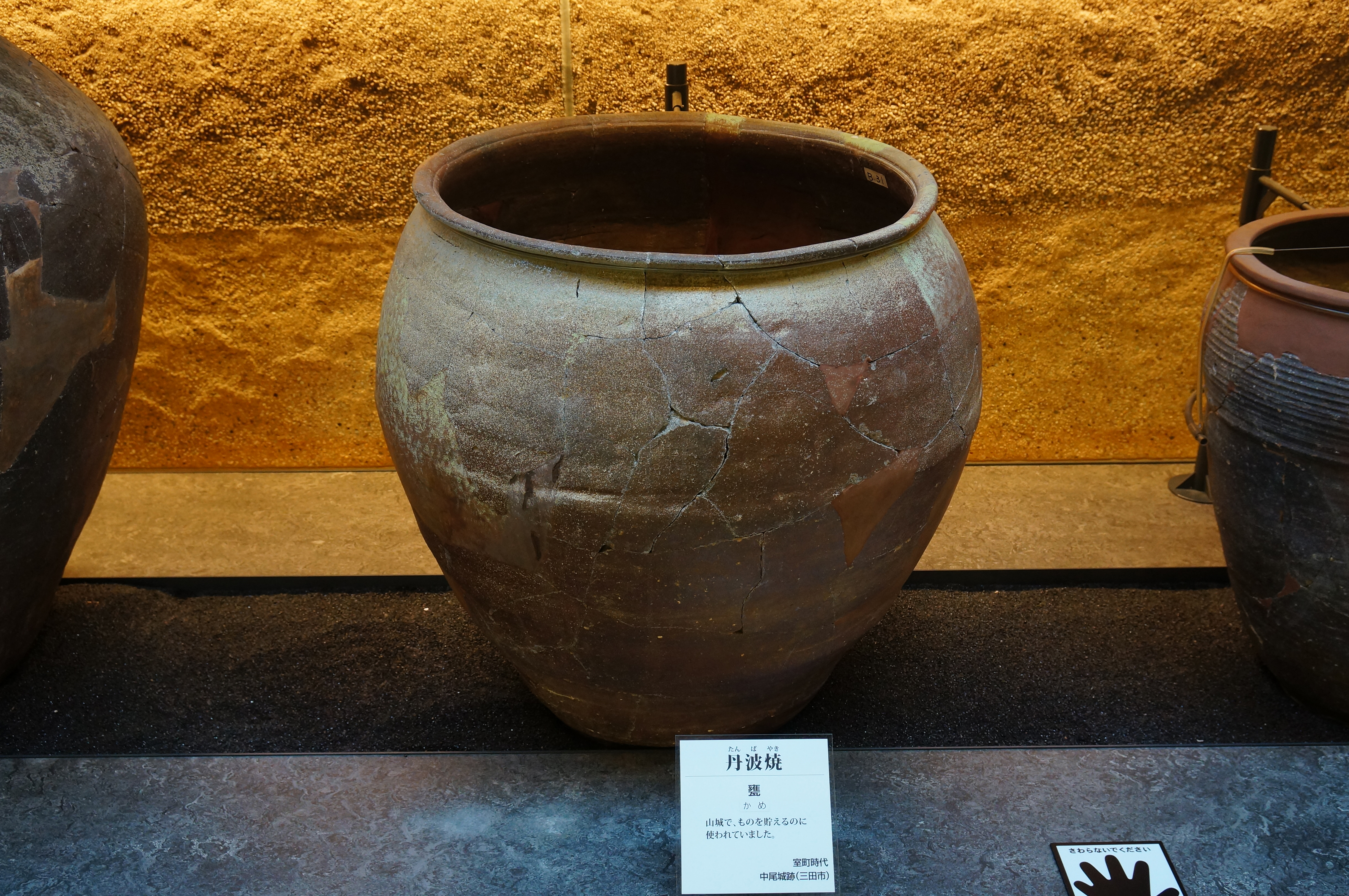 At Hyogo Prefectural Museum of Archaeology in Harima, Hyogo prefecture, Japan.